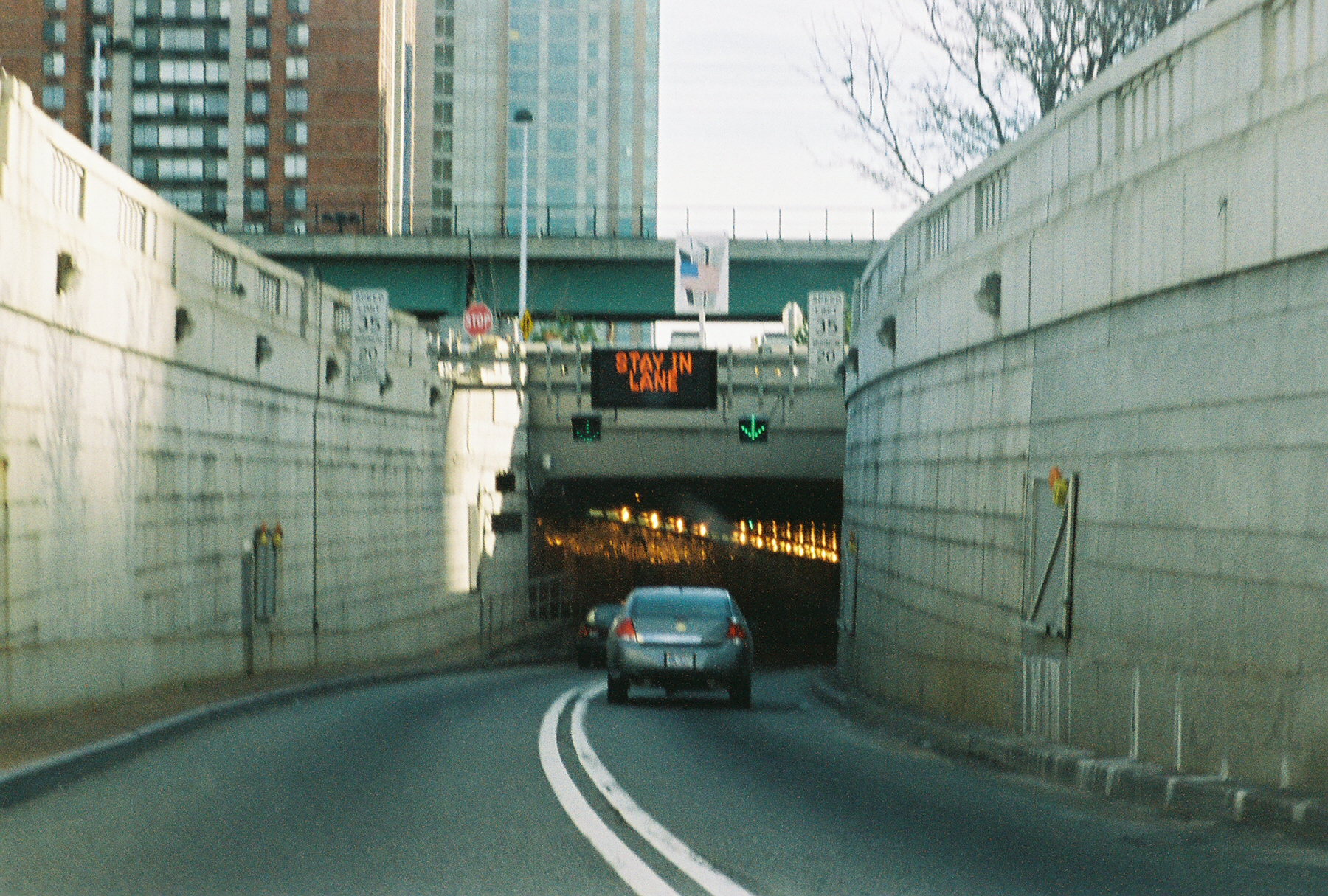 Holland Tunnel NJ Entrance